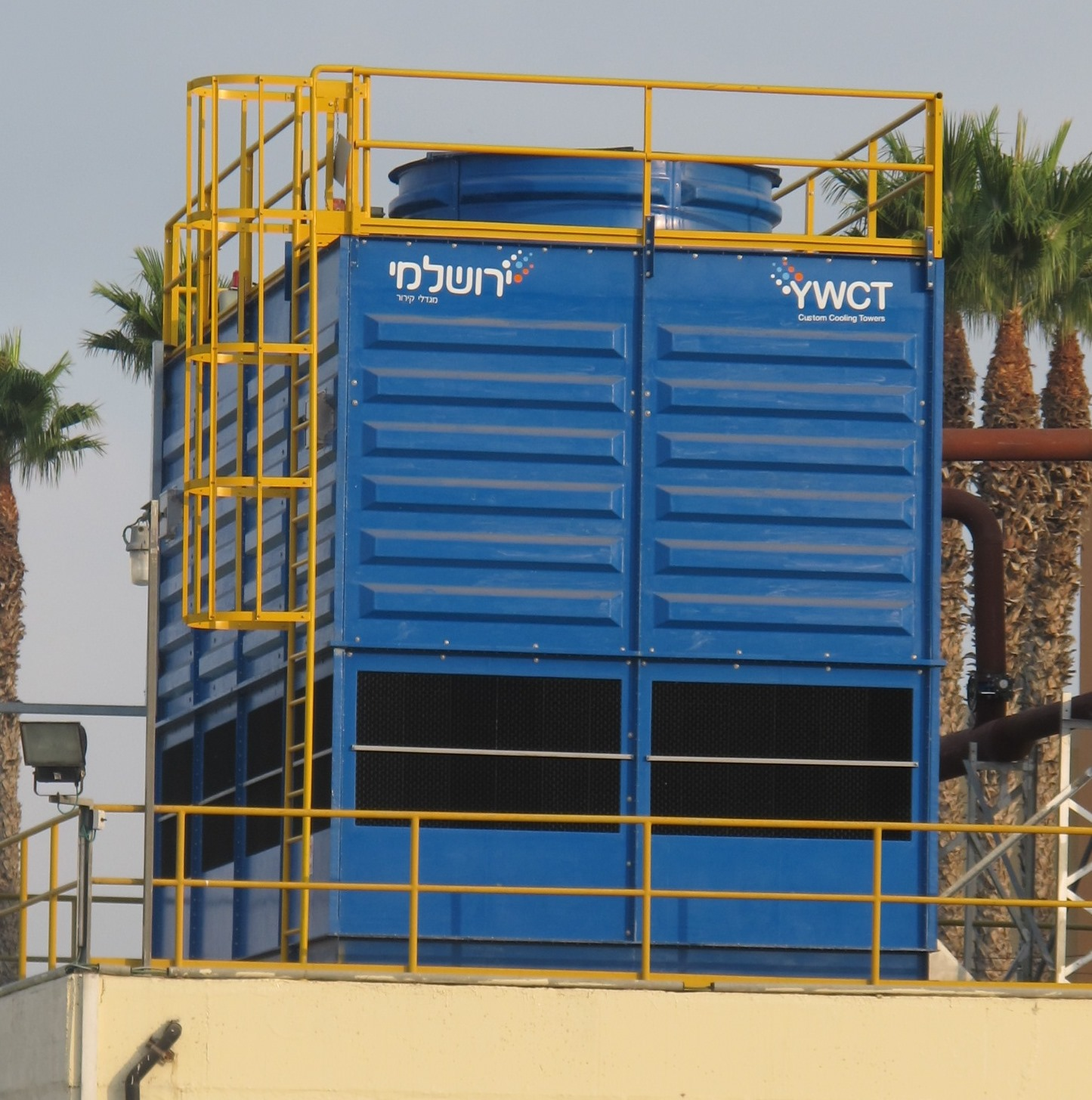 Crossflow Cooling tower